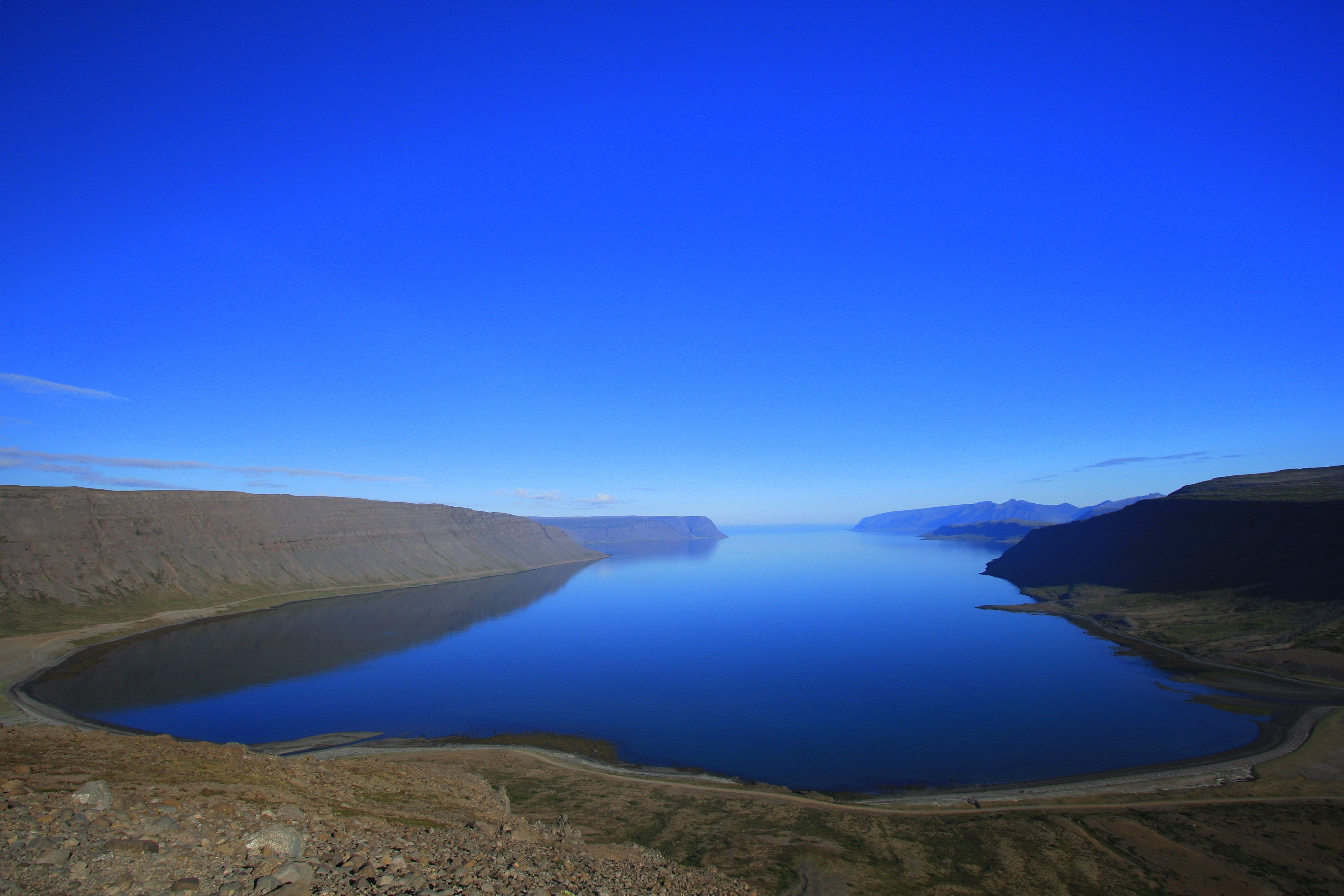 The Arnarfjord photo, but with no effects in the sky. Seen on channel 2 in the Icelandic television.